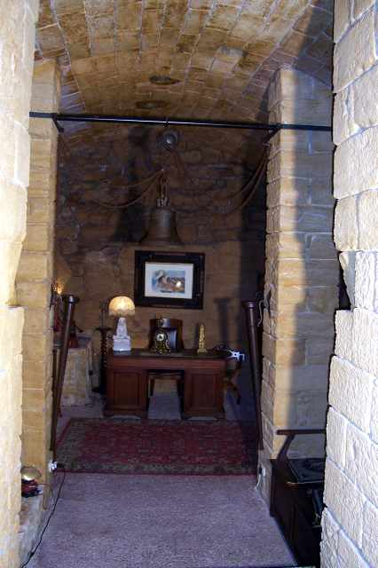 Desciption: Entrance of Hypogeum De Beaumont Bonelli Bellacicco at Taranto, Italy Photographer: --Asia Date: 8.5.2006